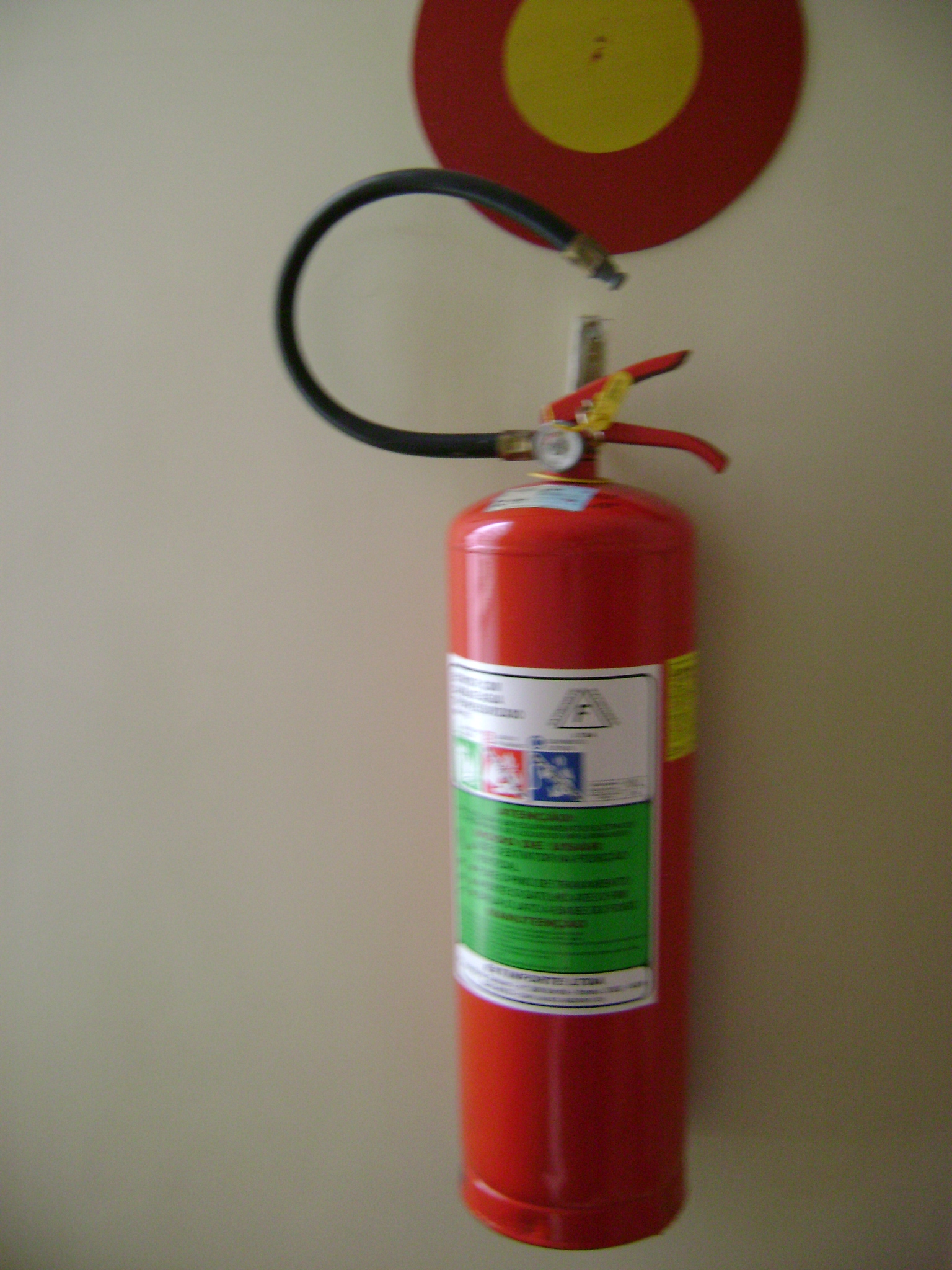 Fire extinguisher